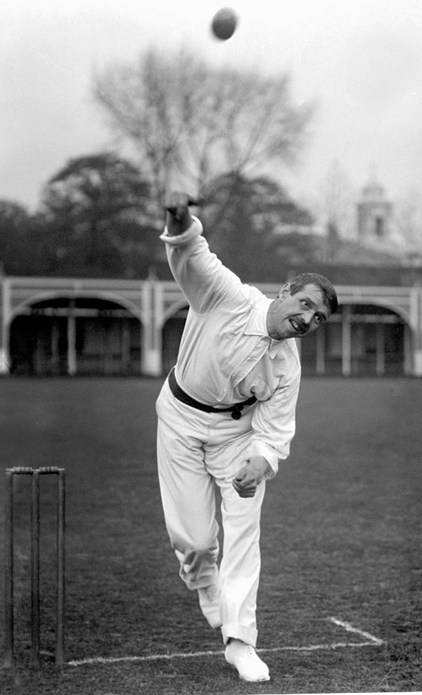 James Hallows, Lancashire, circa 1905.